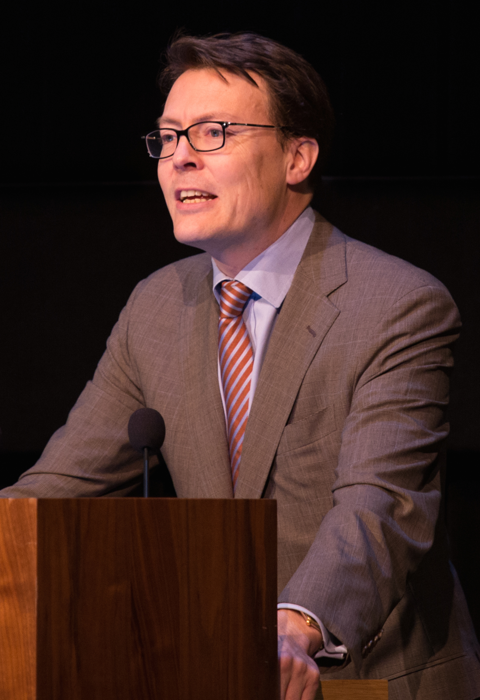 Prince Constantijn of the Netherlands speaks during a congress in 2013.